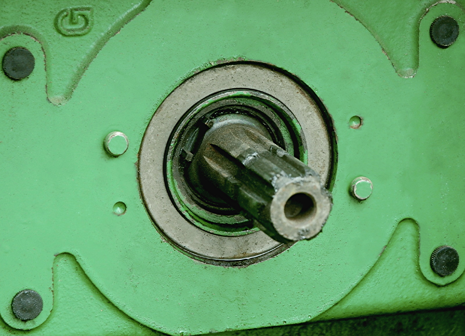 Power take-off (PTO) at the rear end of a John Deere tractor (year of manufacture 2001)